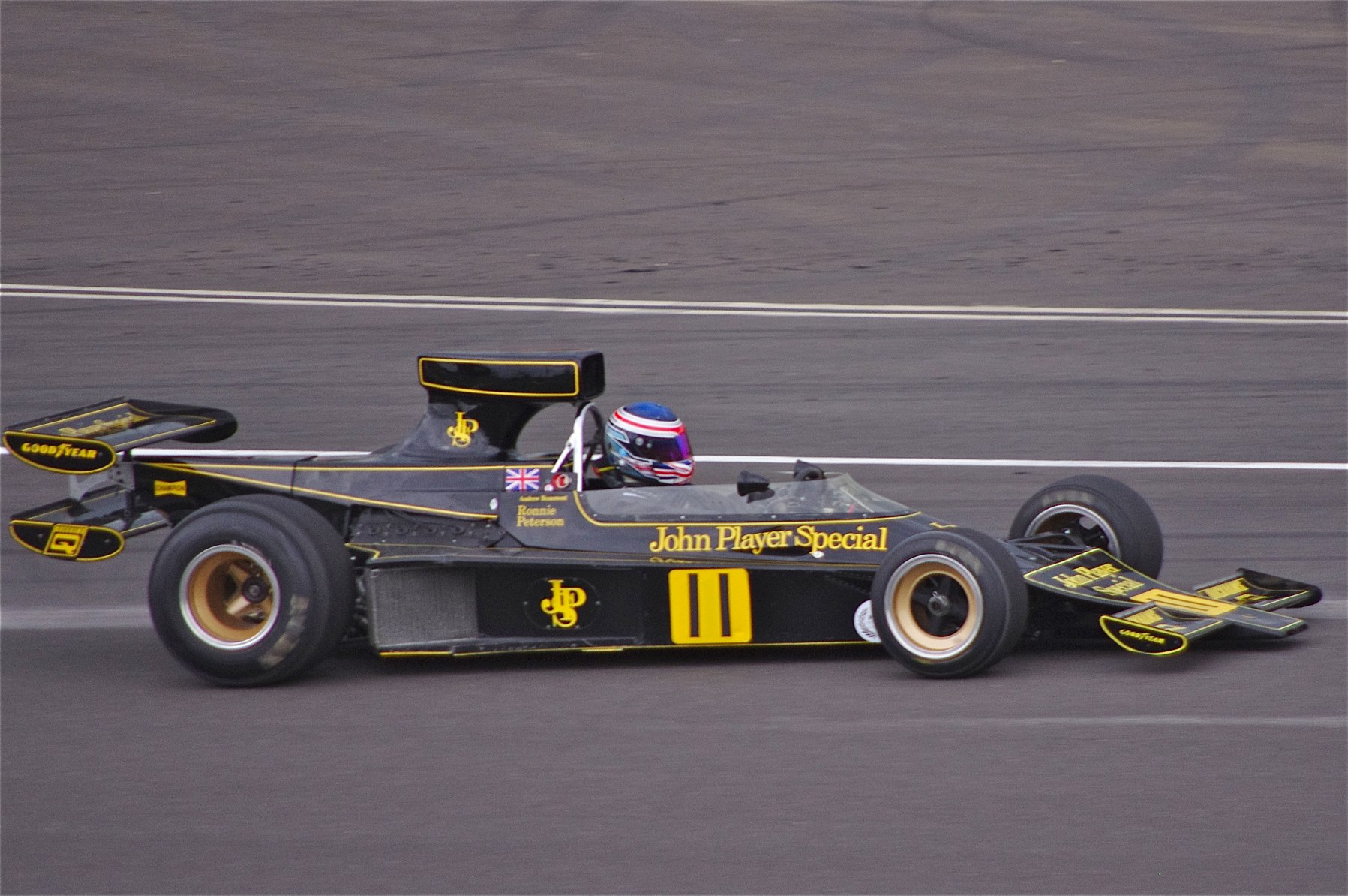 Silverstone Classic 2011